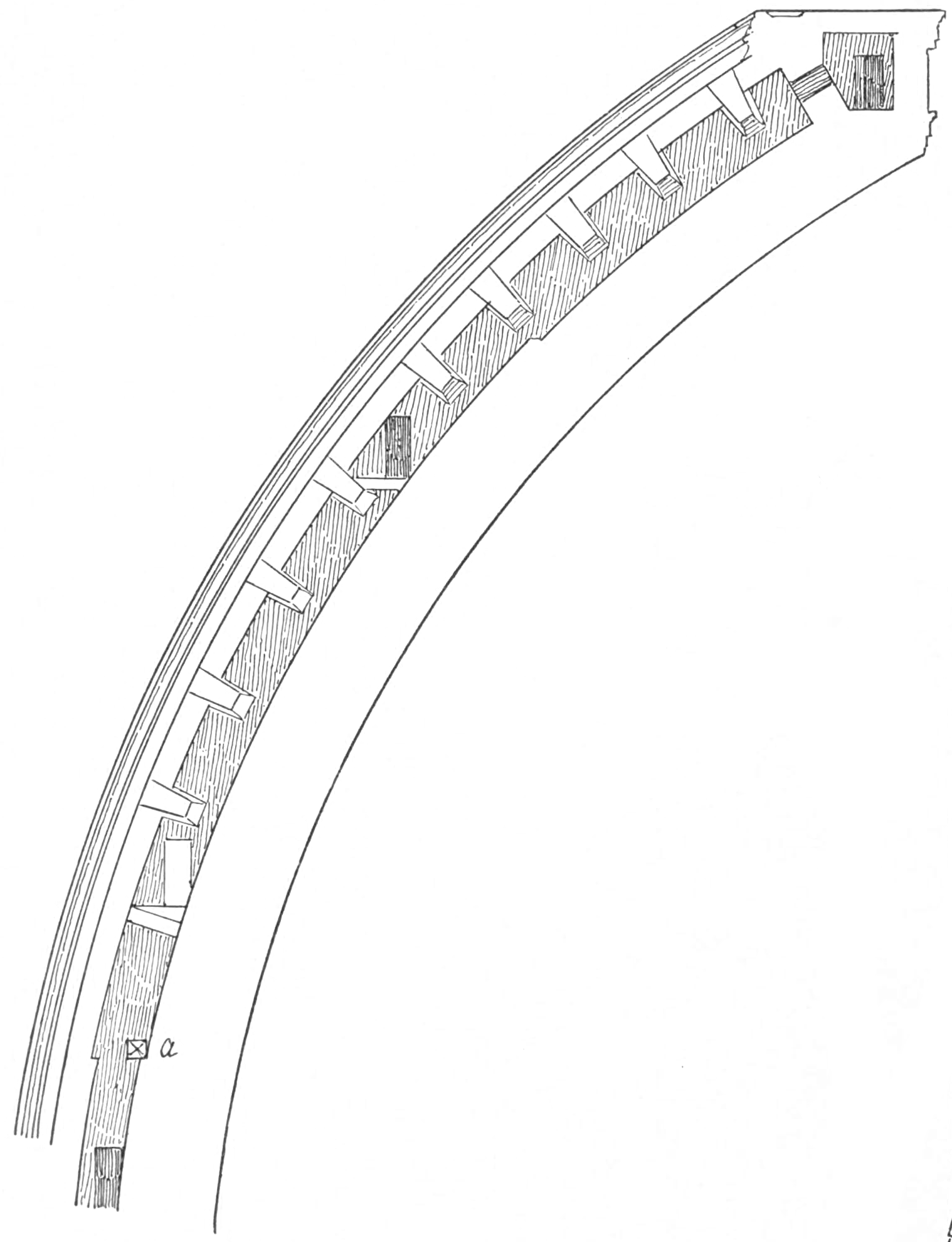 Section of the dome, Florence Cathedral, figure 8 from "Character of Renaissance Architecture"